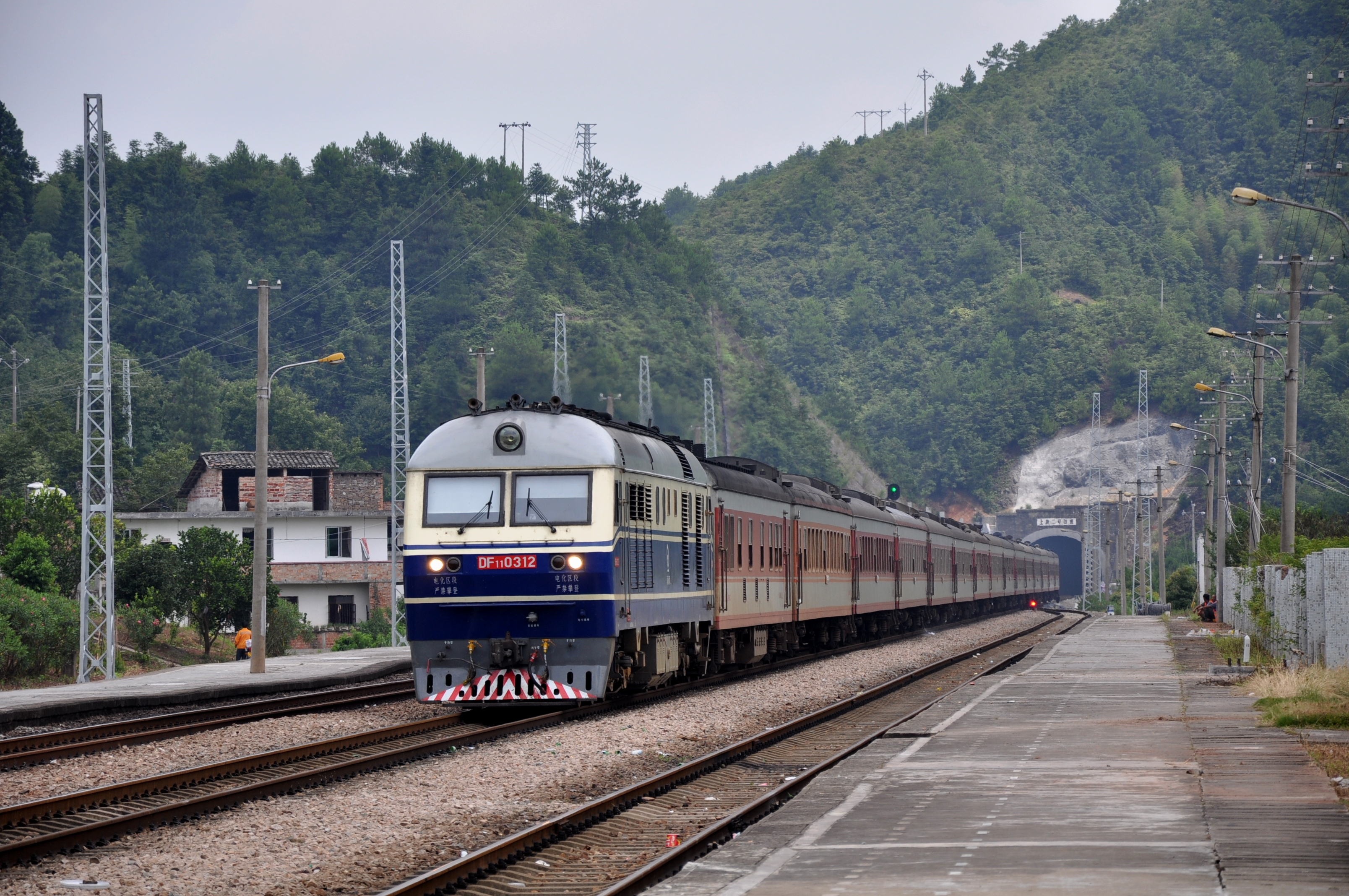 K91 train pass Shangling Station, Jingjiu Railway